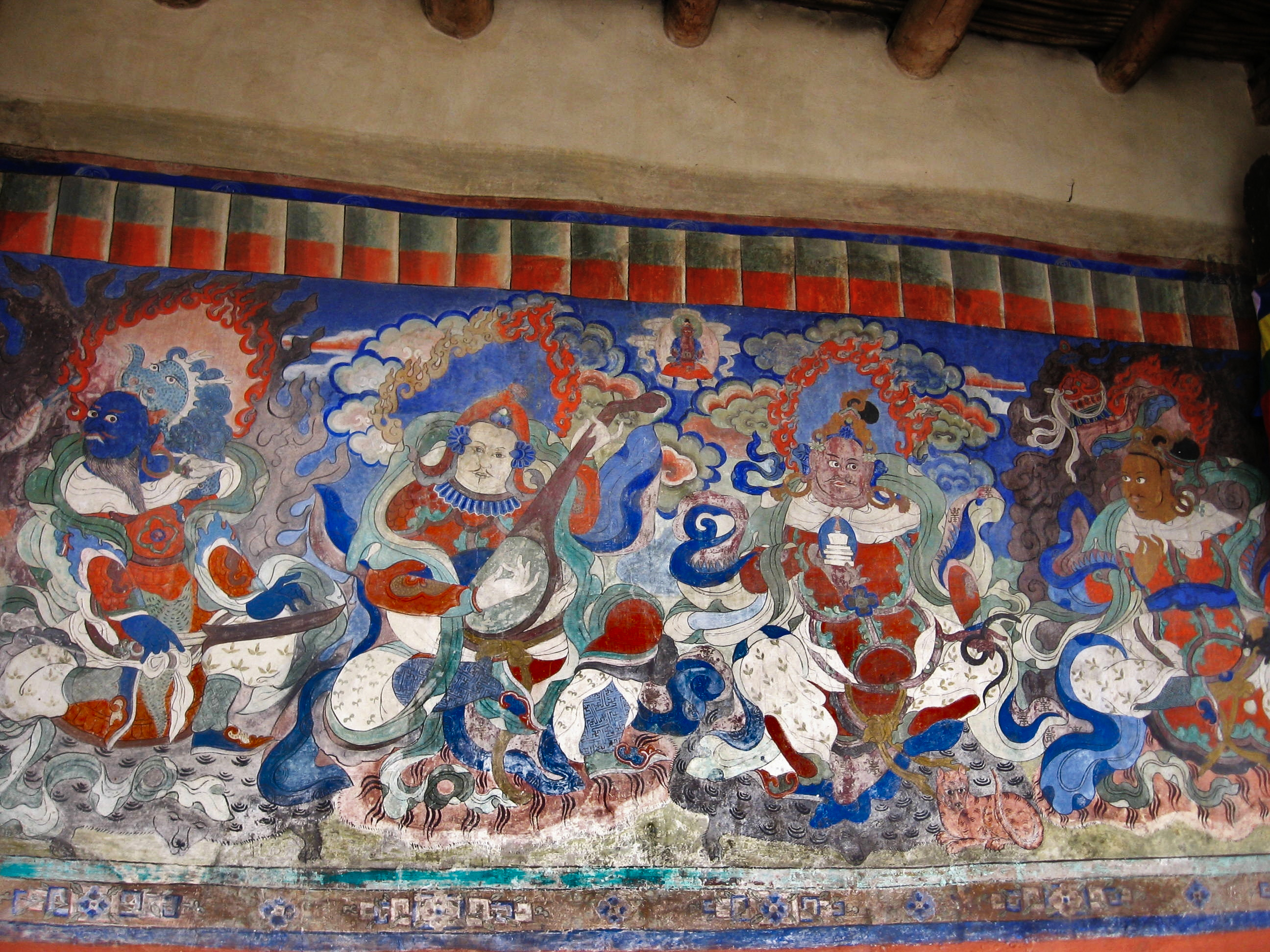 Virudhaka-Dhritarastra-Virupaksha-Vaisarvana, Diskit monastery